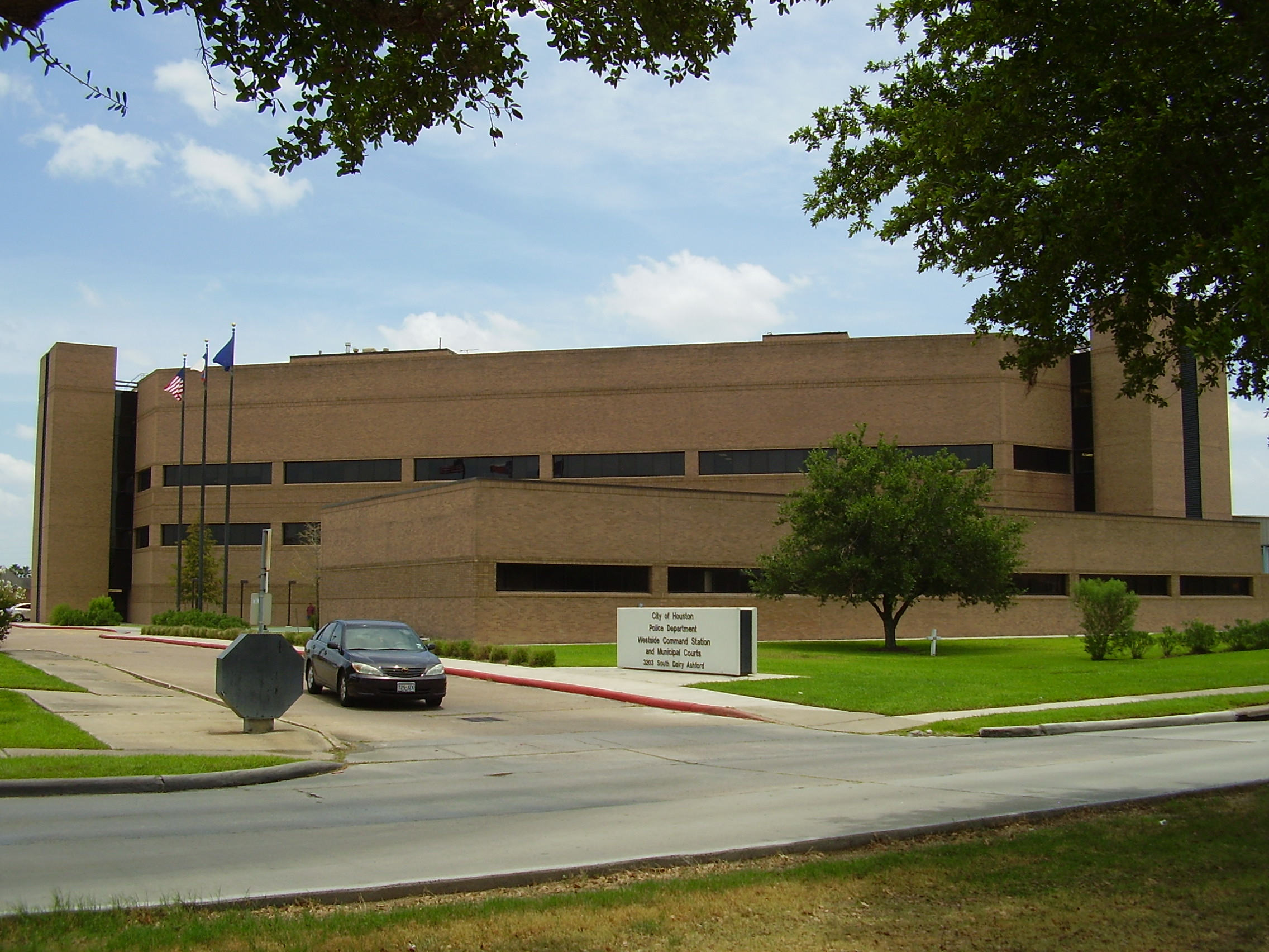 City of Houston Westside Police Substation and Municipal Courts